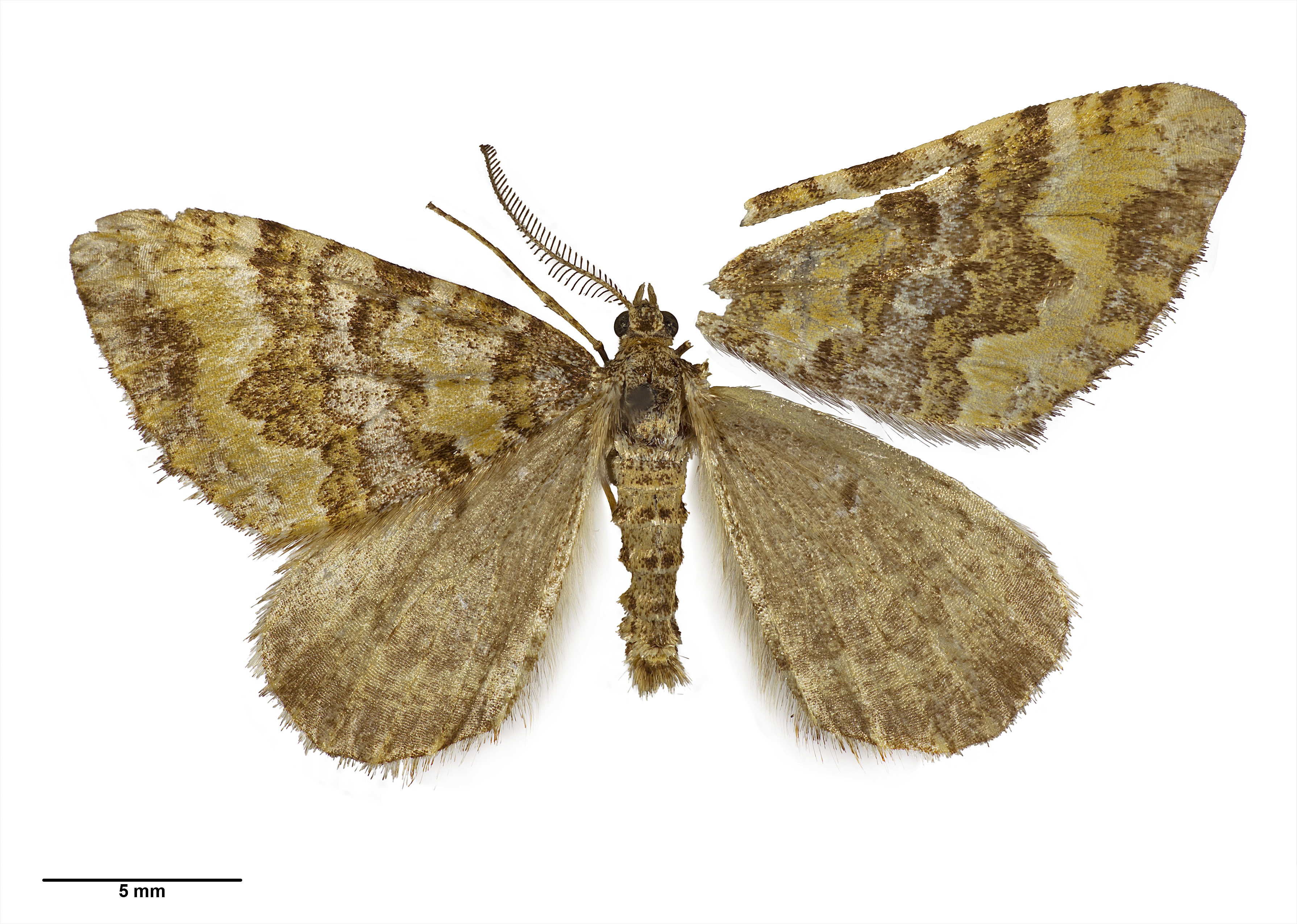 Dorsal view of male holotype specimen of Asaphodes glaciata AMNZ21959 held at the Auckland War Memorial Museum.